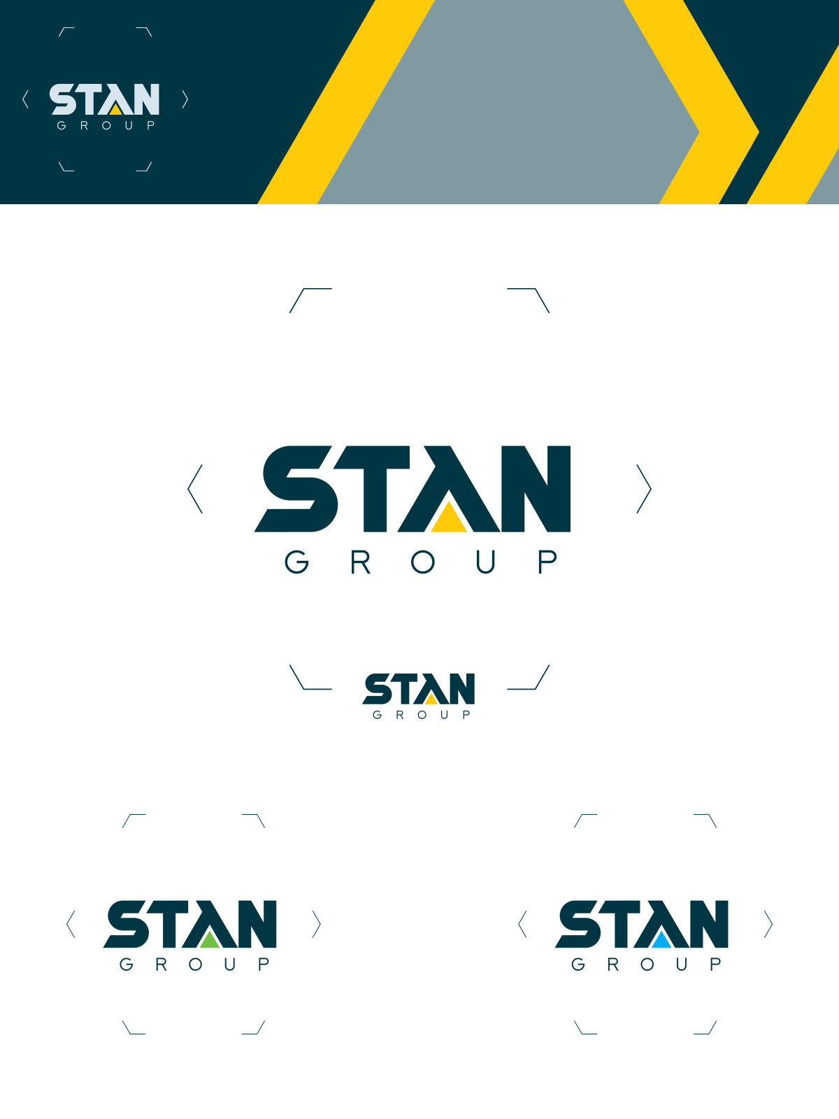 Example of STAN Group Brand Architrcture & Brand Attributes (Astro Design LLC)